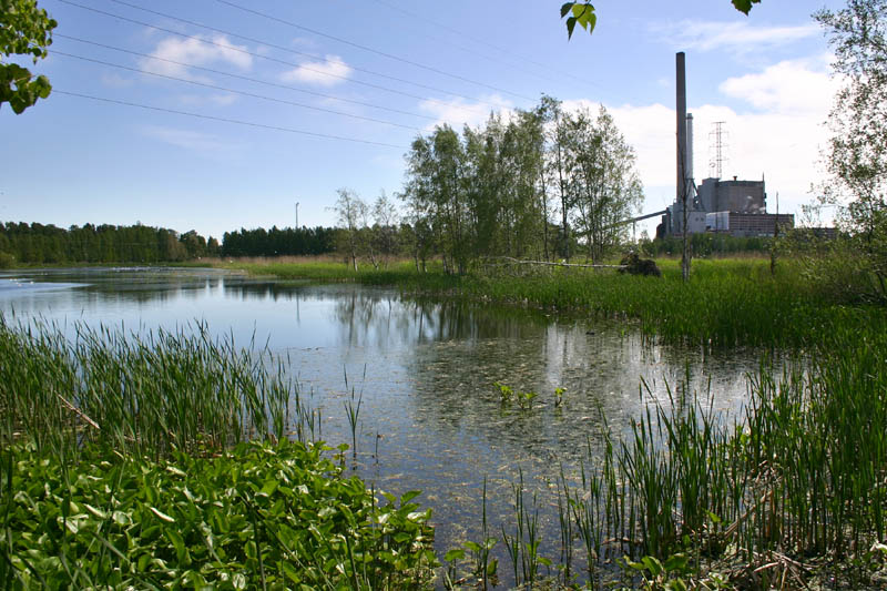 Suomenoja, Espoo, Finland